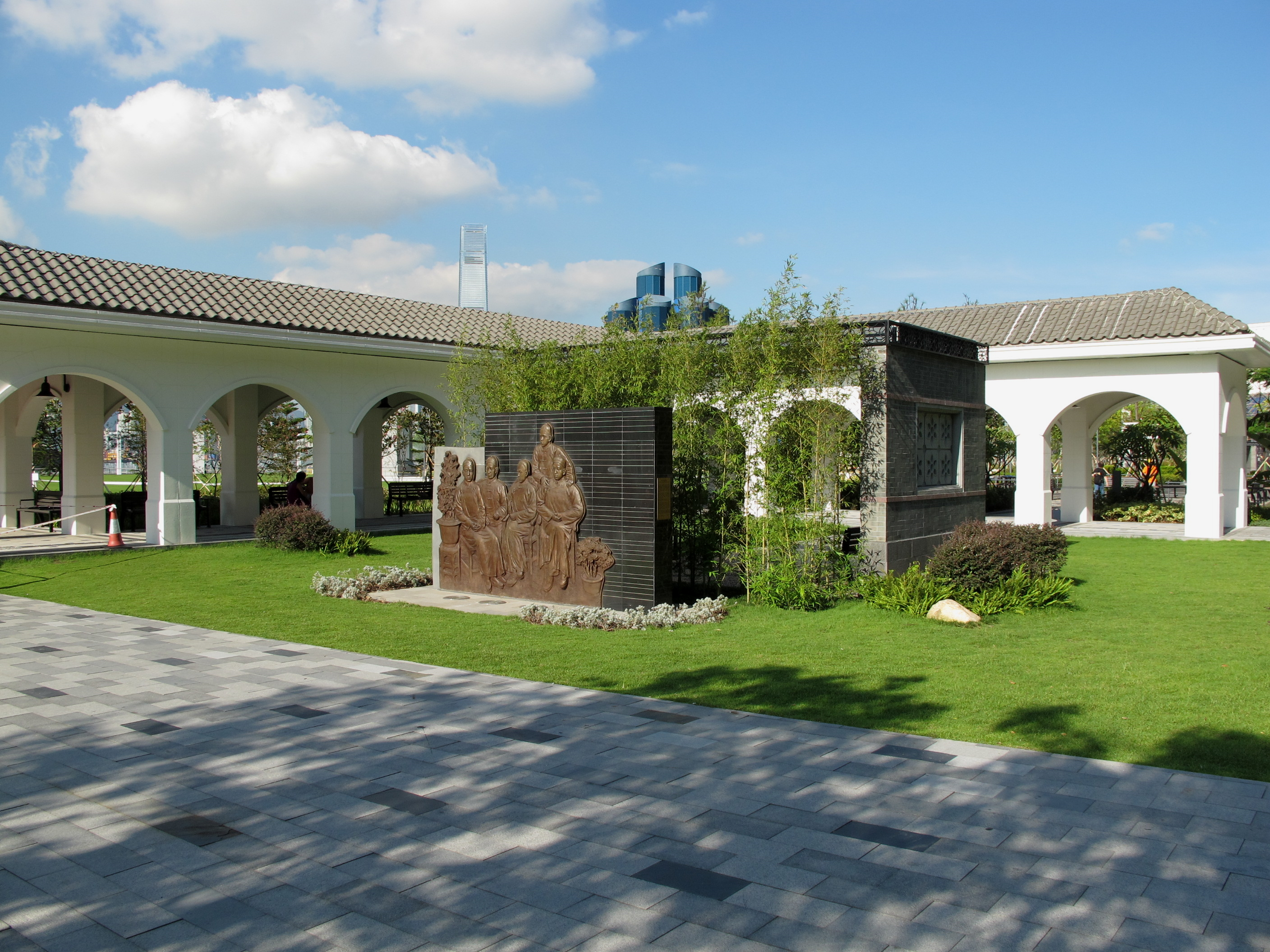 Sun Yat Sen Memorial Park